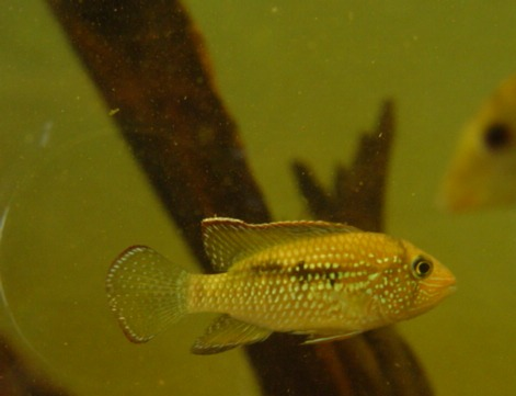 Tahuantinsuyoa macantzatza in aquarium.